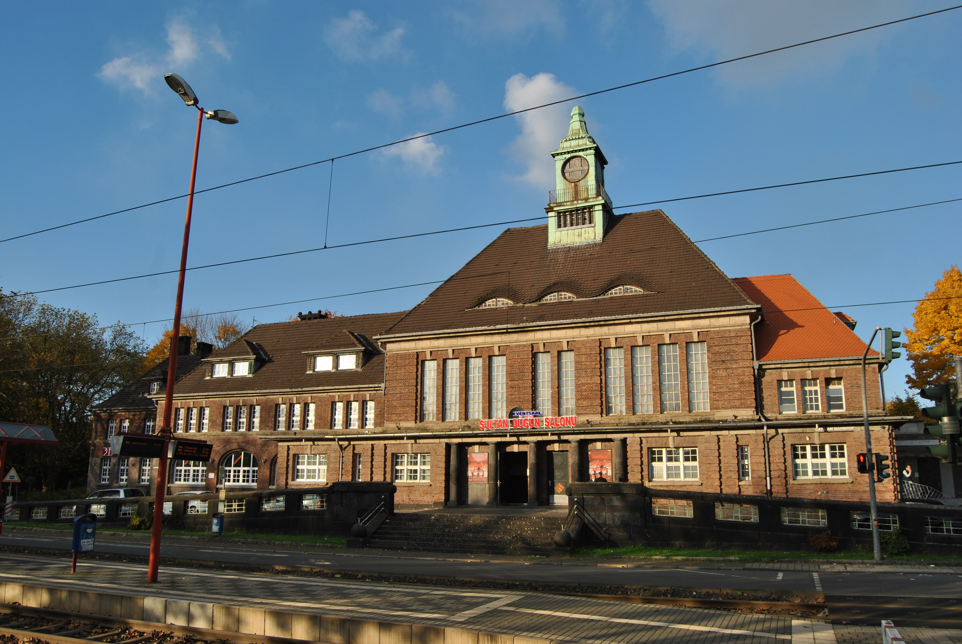 Duisburg (North Rhine-Westphalia, Germany) – borough Hamborn, district Obermarxloh – former Hamborn Train Station This image shows a heritage building in Germany, located in the North Rhine-Westphalian city Duisburg (no. 99). This photograph was taken with a Nikon D3000.